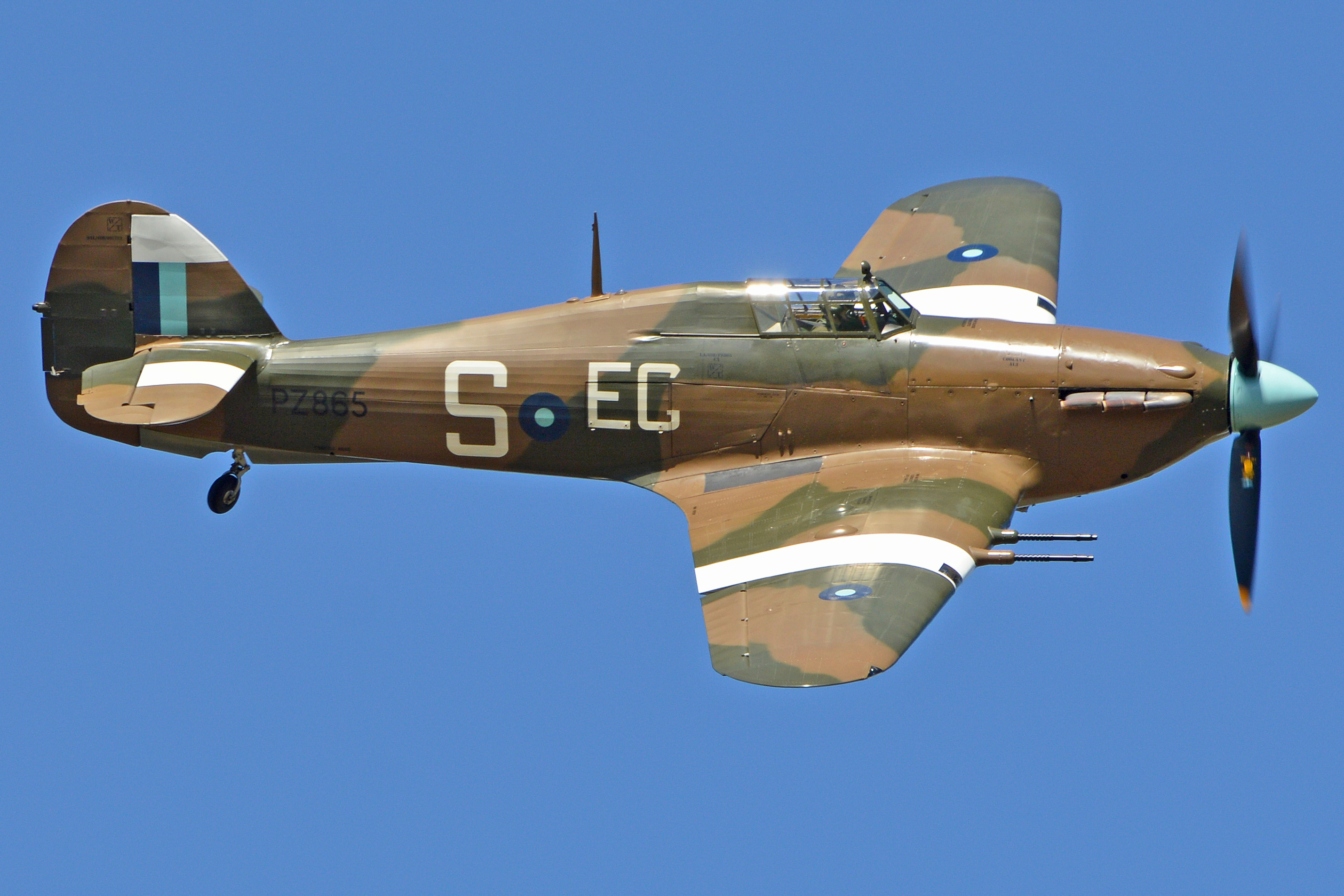 PZ865 was the last of the 14,533 Hurricanes built, and was initially retained by Hawkers. She is now operated by the RAF Battle of Britain Memorial Flight (BBMF) and wears the markings of a 34sqn aeroplane (HW840) flown by Canadian pilot Flight Lieutenant Jimmy Whalen DFC, as part of the South East Asia Command in 1944. She is seen during a practice display at her home base, RAF Coningsby, Lincs, UK. 20-4-2016